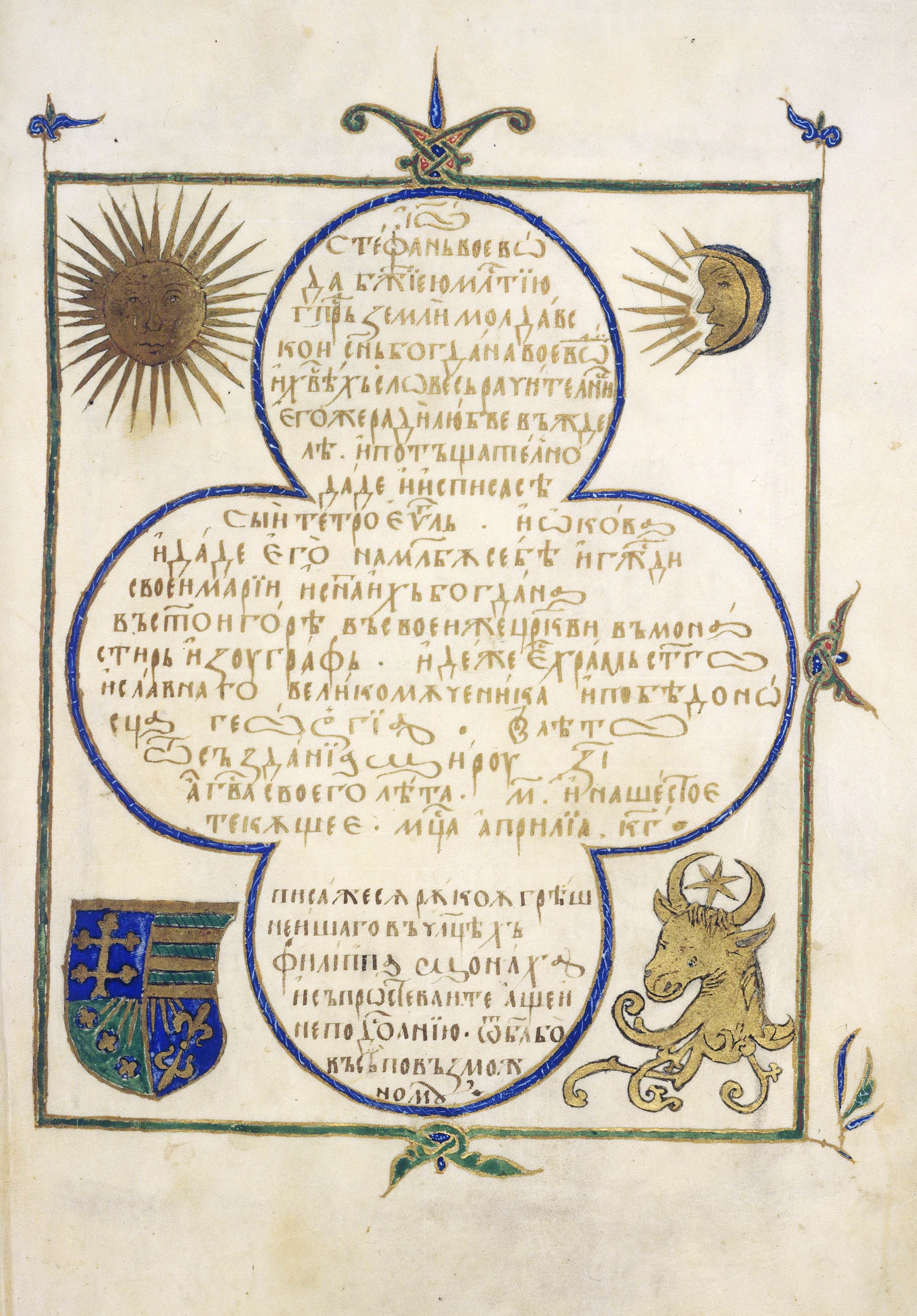 Folio of Moldavian Slavonic manuscript with the personal coat of arms of Stephen III of Moldavia. Description: Full page: text (dedication in golden ink), moon, aurochs and sun in gold, family crest of the princes in blue, green and gold